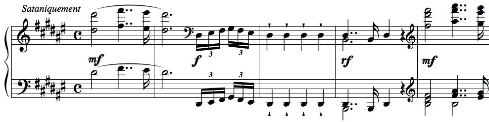 Quasi-Faust, the second movement from Grande sonate 'Les quatre âges', composed by Charles-Valentin Alkan